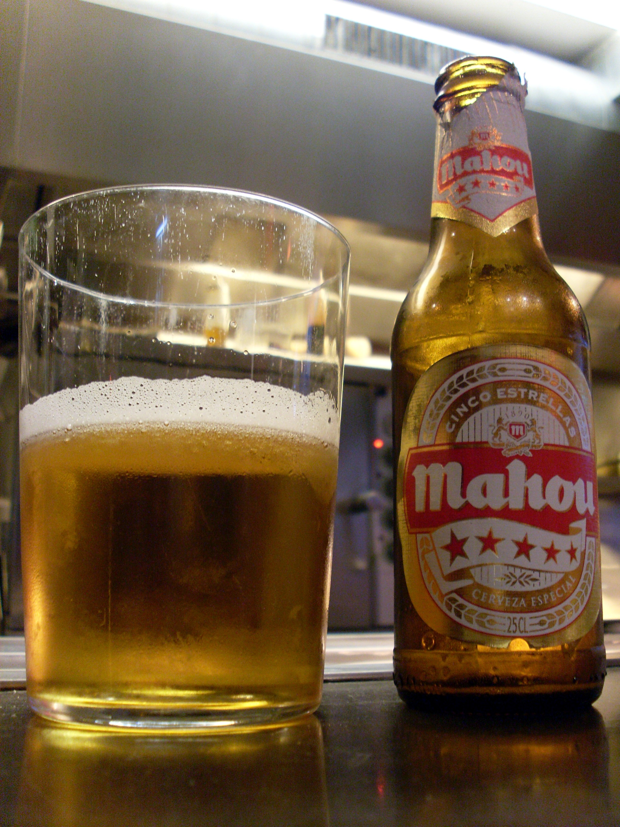 Mahou, in a Brussels tapas bar.